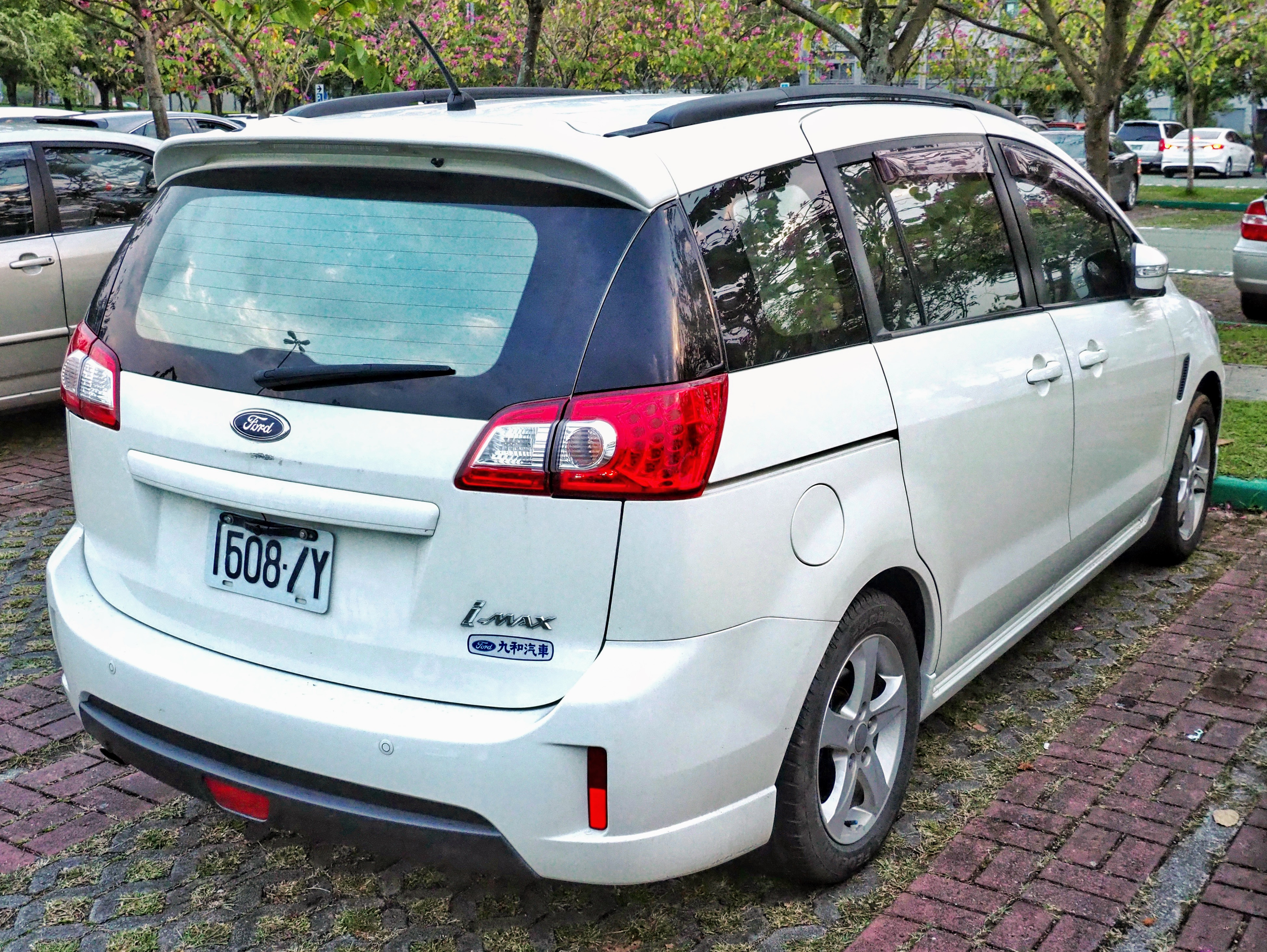 A 2007 Ford Lio Ho i-Max photographed in Dongshan District, Tainan, Taiwan.